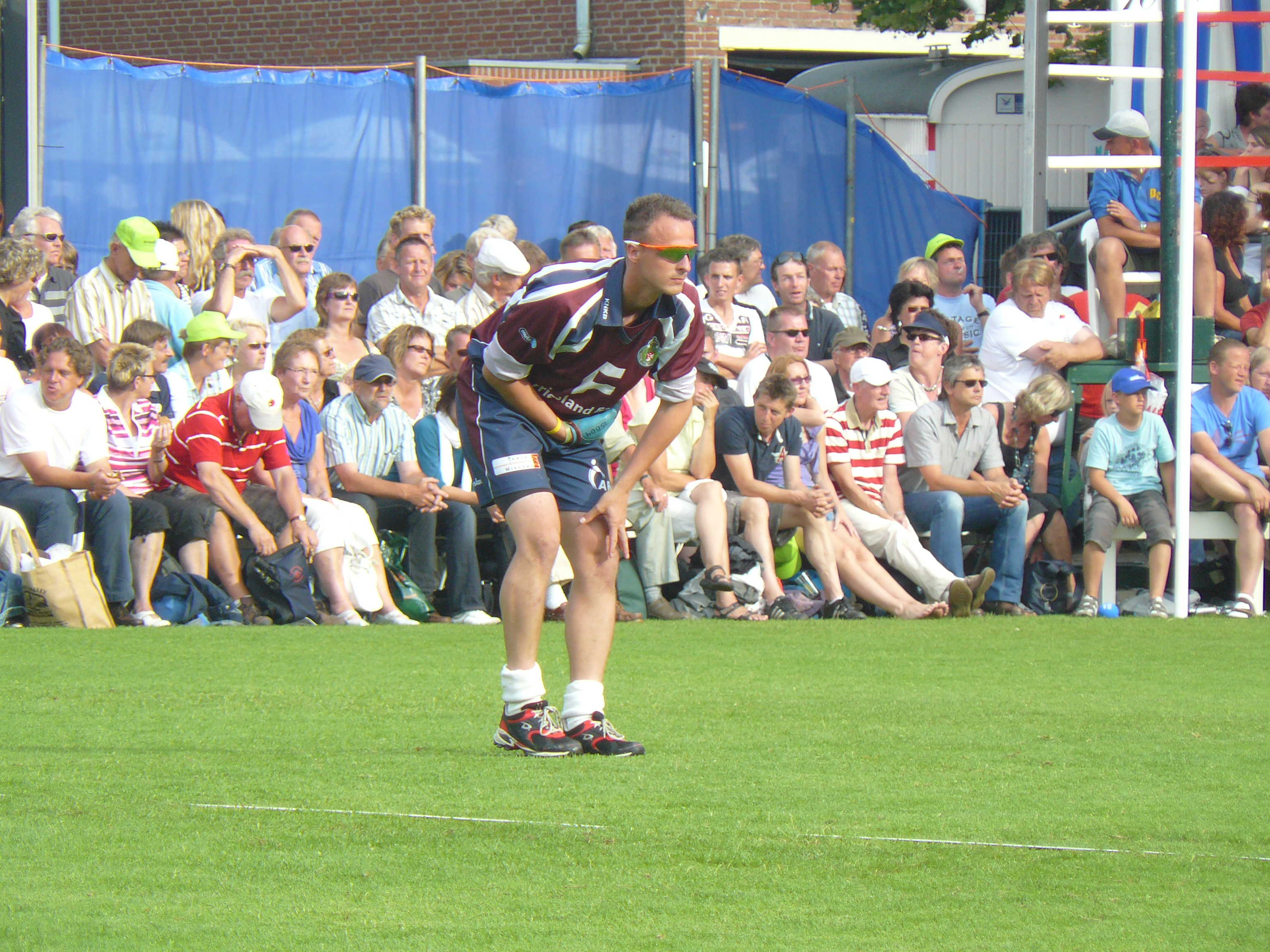 Folkert van der Wei on the PC of 2009